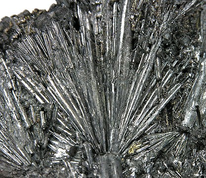 Cylindrite Locality: Santa Cruz Mine, Poopó town, Poopó Province, Oruro Department, Bolivia (Locality at ) Size: 5.3 x 3.6 x 2.8 cm. This is a rich of specimen of one of the most unique species in all the mineral kingdom. Cylindrite is a lead, iron, tin, antimony sulfosalt that forms in "cylinder" or "tube" shaped crystals, hence the name. This specimen is especially nice considering that it is loaded with crystals. The longest crystal measures 18 mm. The mine at Poopo is the type locality for the species.